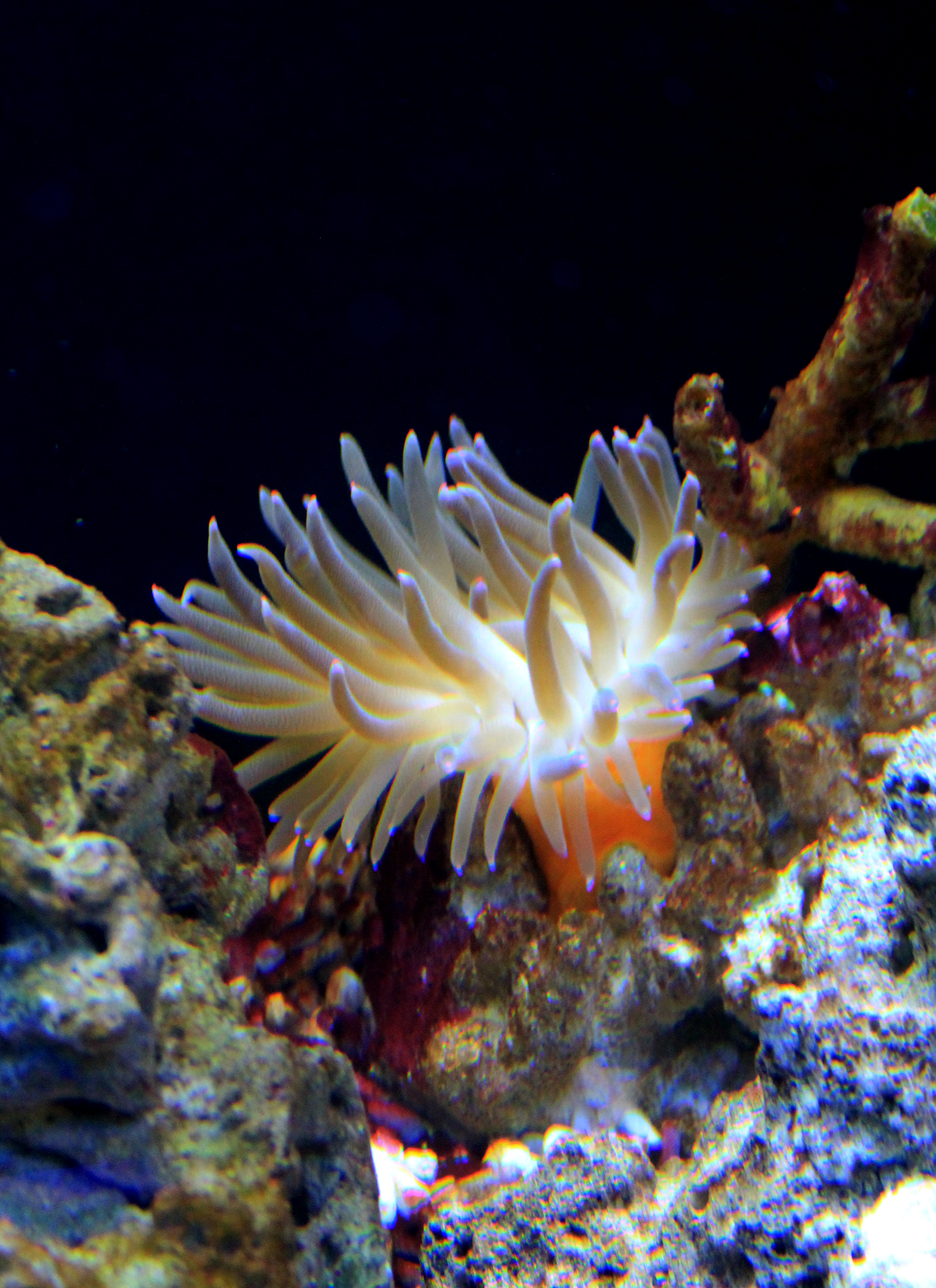 Sea anemone Sebae anemone, (Heteractis crispa) in Prague sea aquarium “Sea world”, Czech Republic Česky: Mořská sasanka sasanka kučeravá, Heteractis crispa v pražském mořském akváriu Mořský svět v Holešovicích